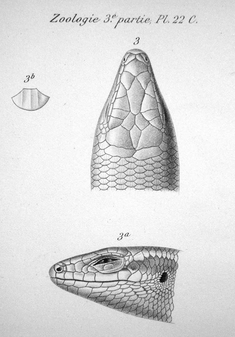 Head of the lizard Trachylepis maculata, lectotype (Miralles et al., 2009, caption to fig. 7).